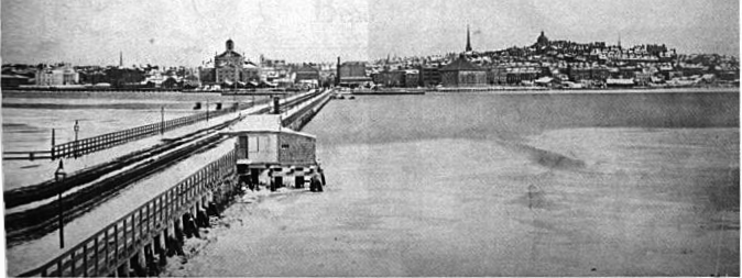 West Boston Bridge, looking towards Boston